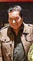 Eddie Garcia On March 2013 as I Photographed Myself.